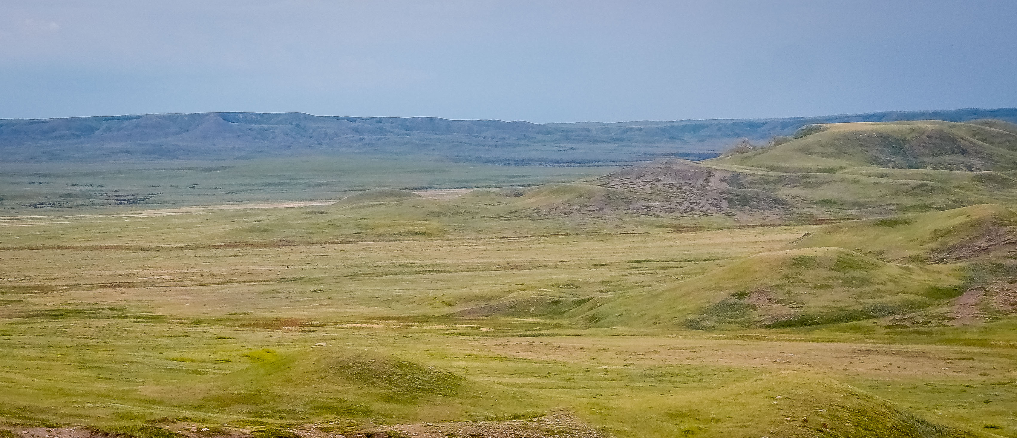 grassland national park, Saskatchewan, Canada, prairie